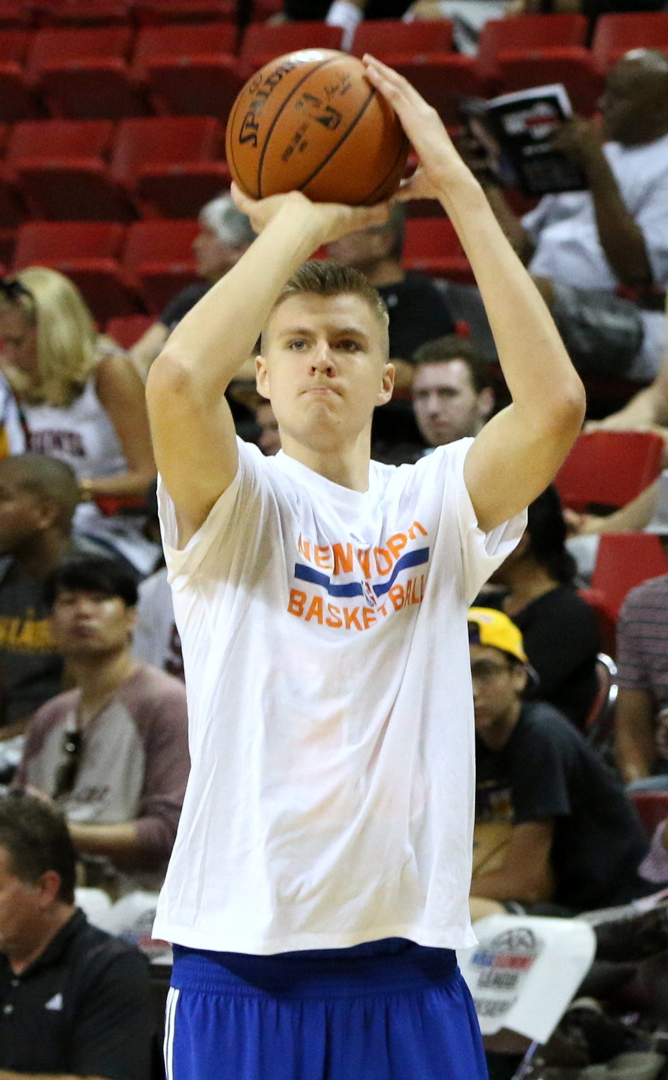 Kristaps Porzingis during the 2015 NBA Summer League